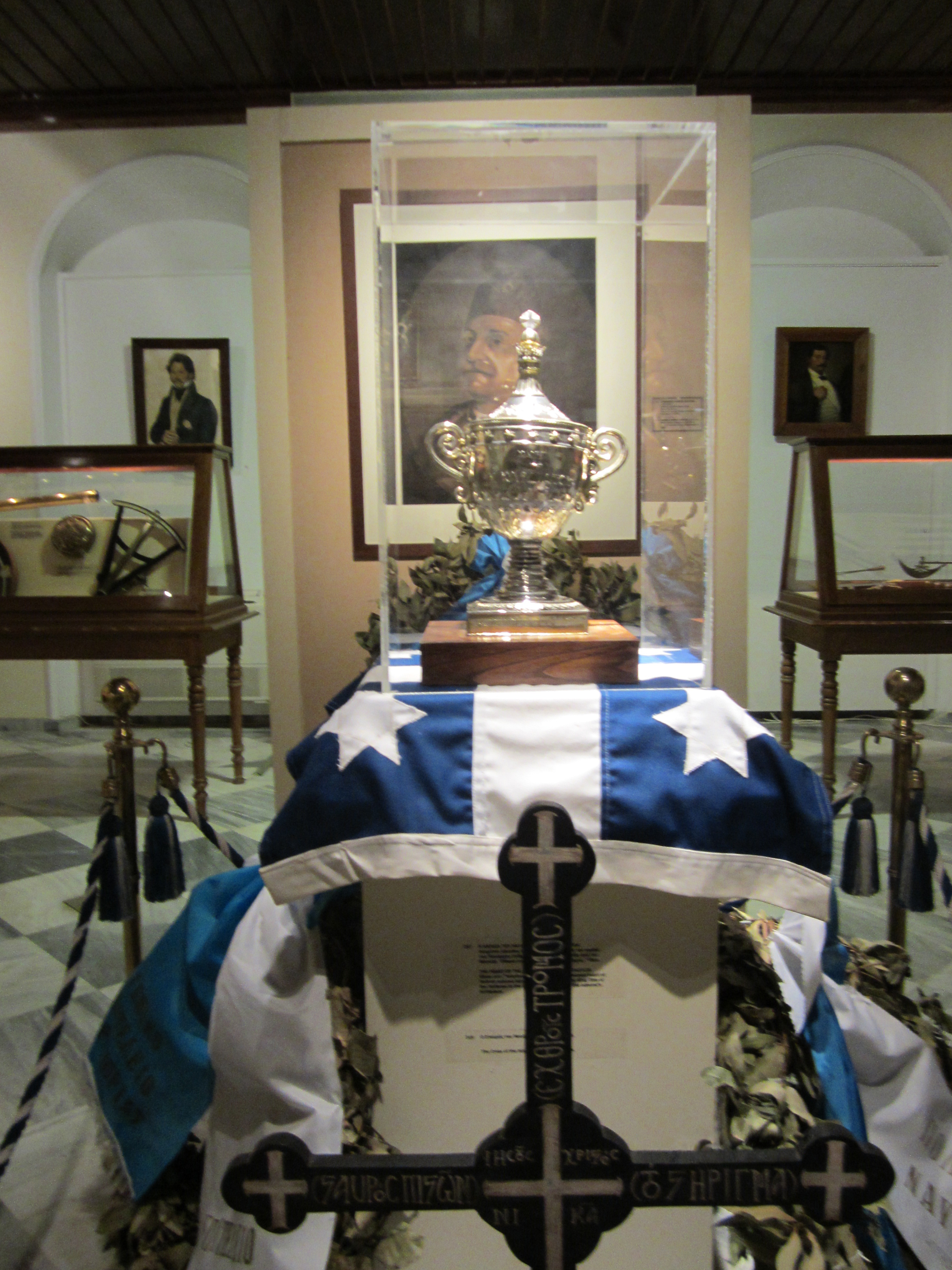 Historical museum of Hydra, Greece. Likinthos with heart of admiral A.Miaoulis.